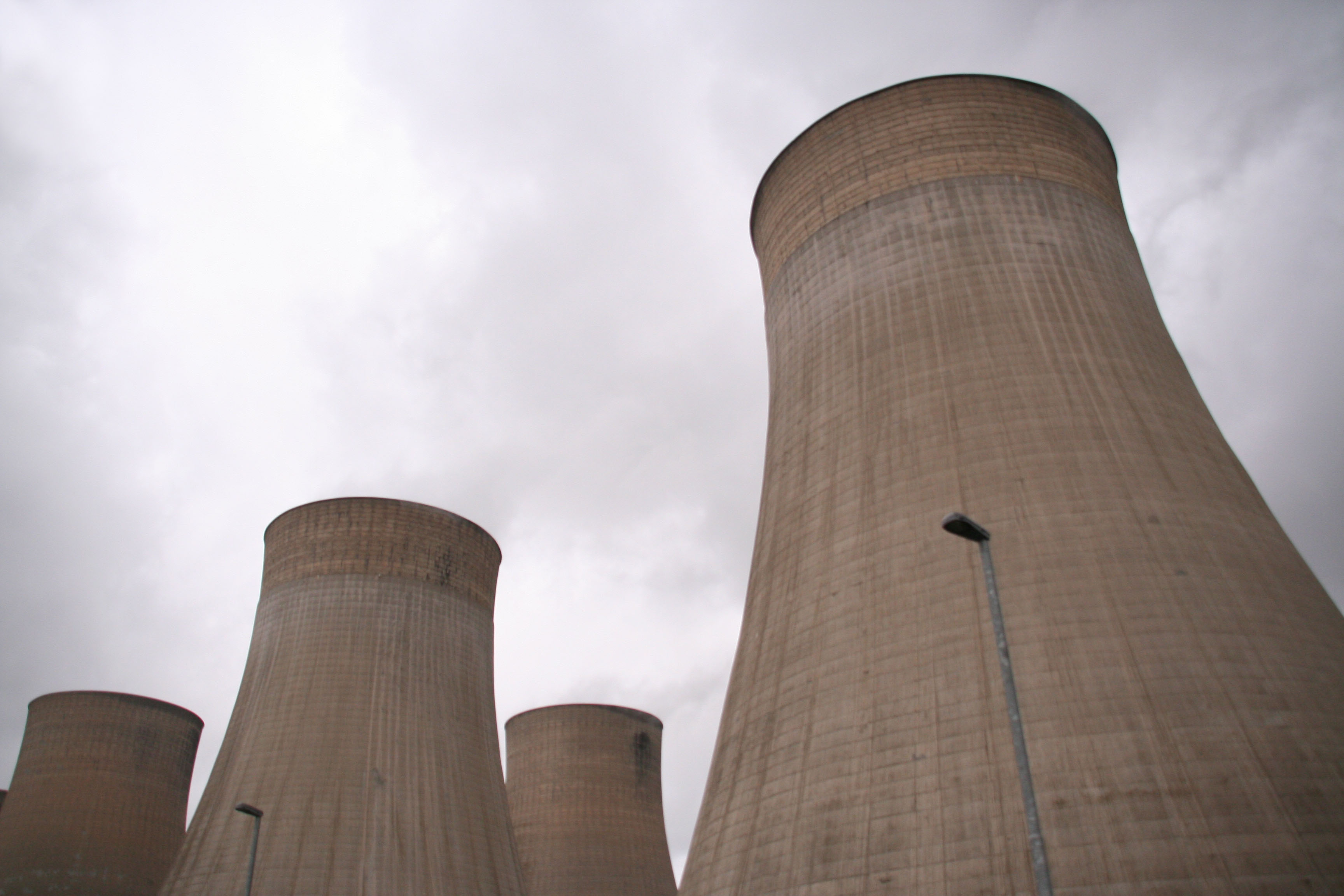 Photo of the cooling towers from the coal power station on a cloudy day